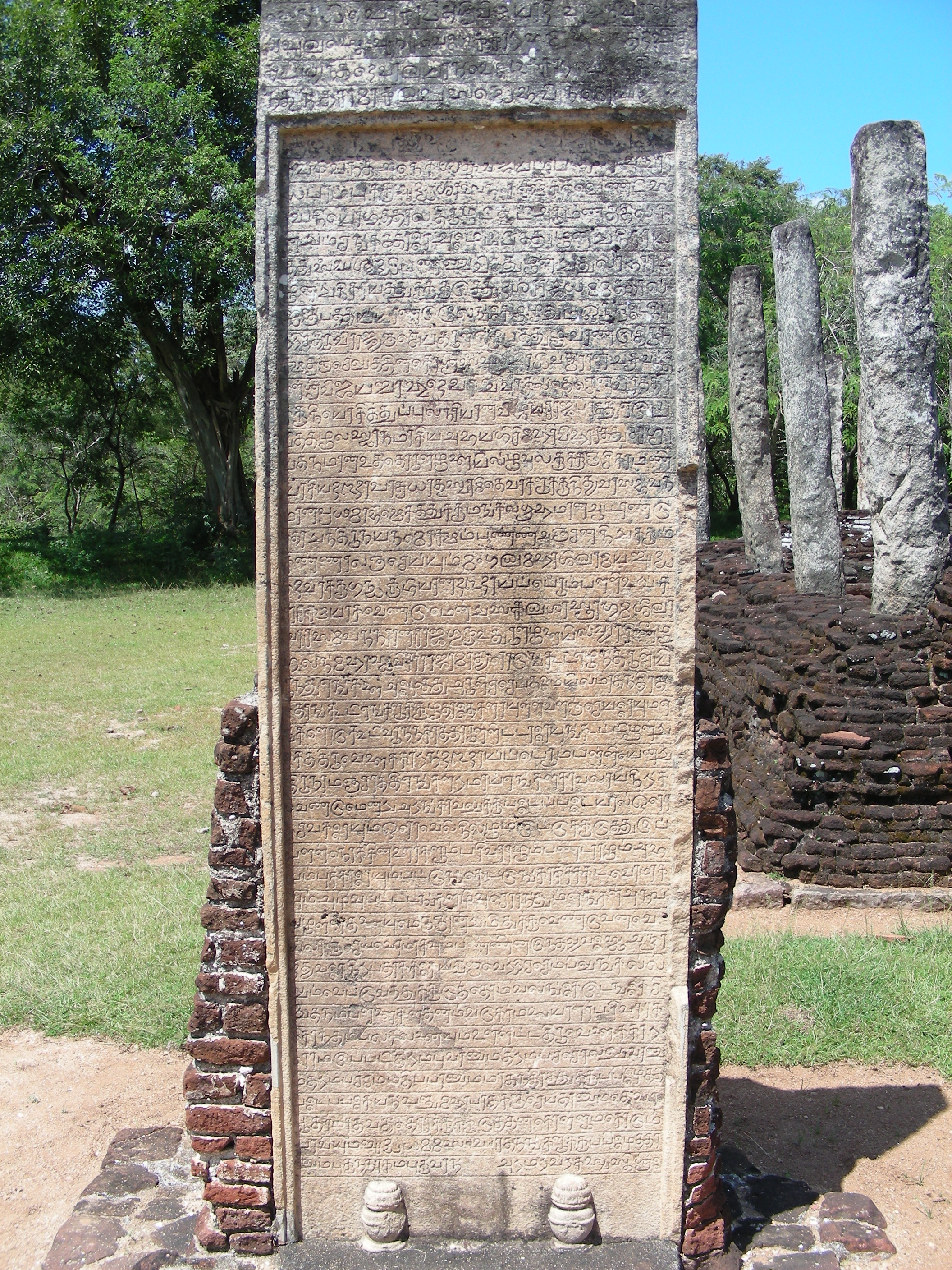 Valaikkara inscription in Polanaruwa, Sri Lanka, left behind by Tamil mercenaries (Velakkara or Valaikkara) in the 12th century CE (Velakkara Revolt during Vijayabahu I reign). This Polonaruwa inscription is really interesting; it is Vatteluttu script (Tamil) with Grantha script for Sanskrit words, as was a common style historically.